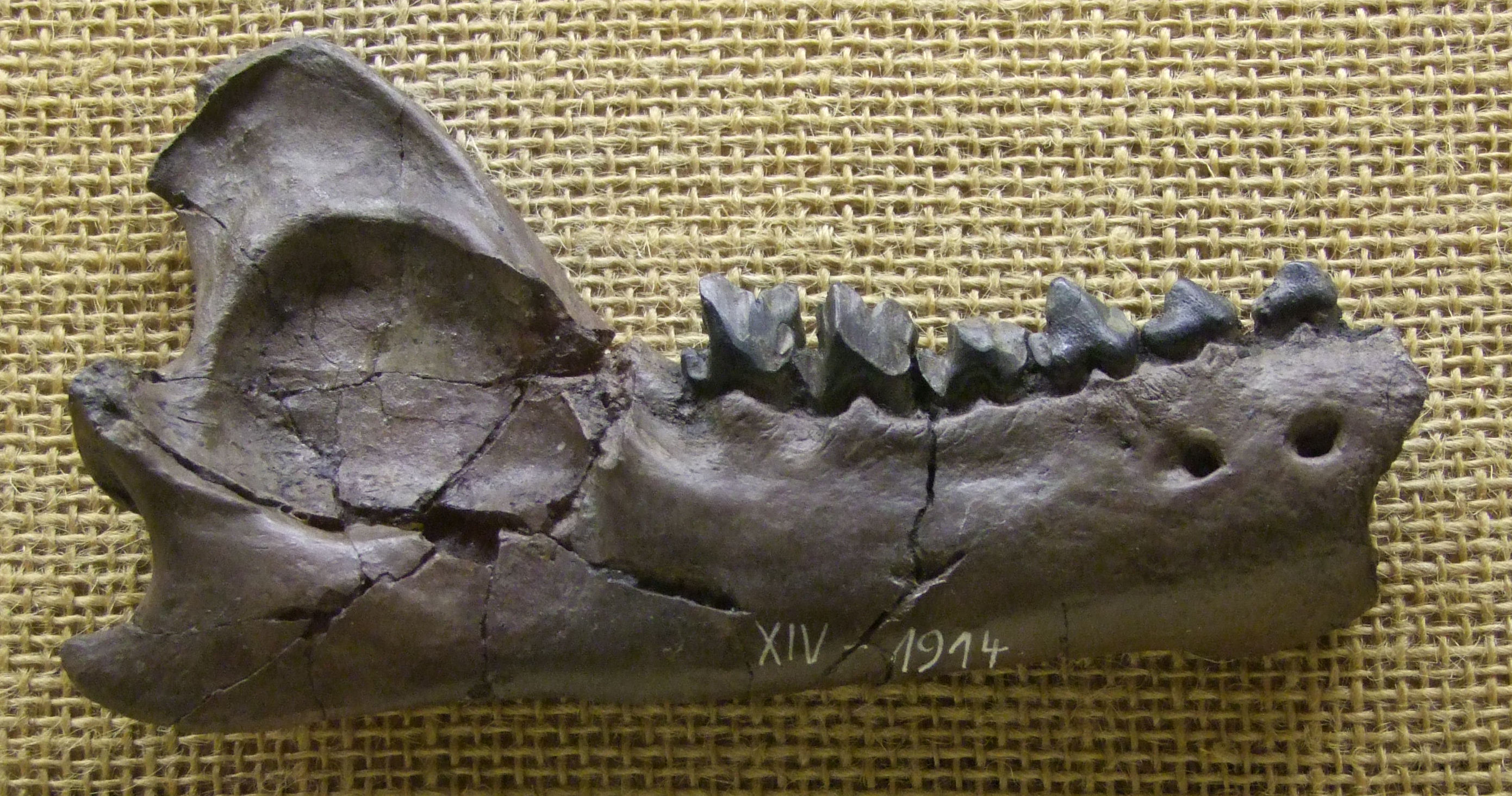 dentary of Matthodon from the Eocene of the Geiseltal, Germany; took the picture in the Geiseltalmuseum, Halle (Saxony-Anhalt)